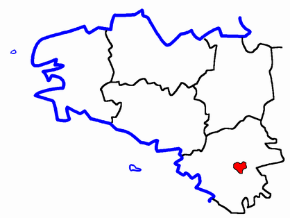 Description: Map for localisazion of cantons of Pays-de-Loire, region in France Source: made by Hervé Tigier in april 2005 from another large map (published in 1990)